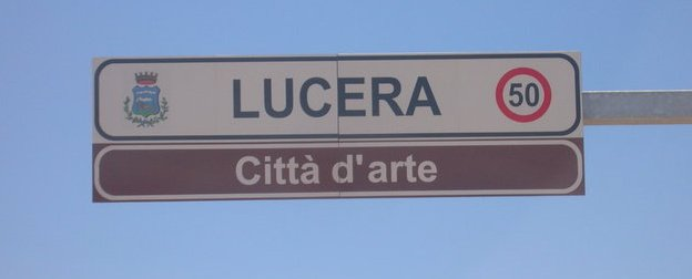 Cartello Lucera Città D'arte